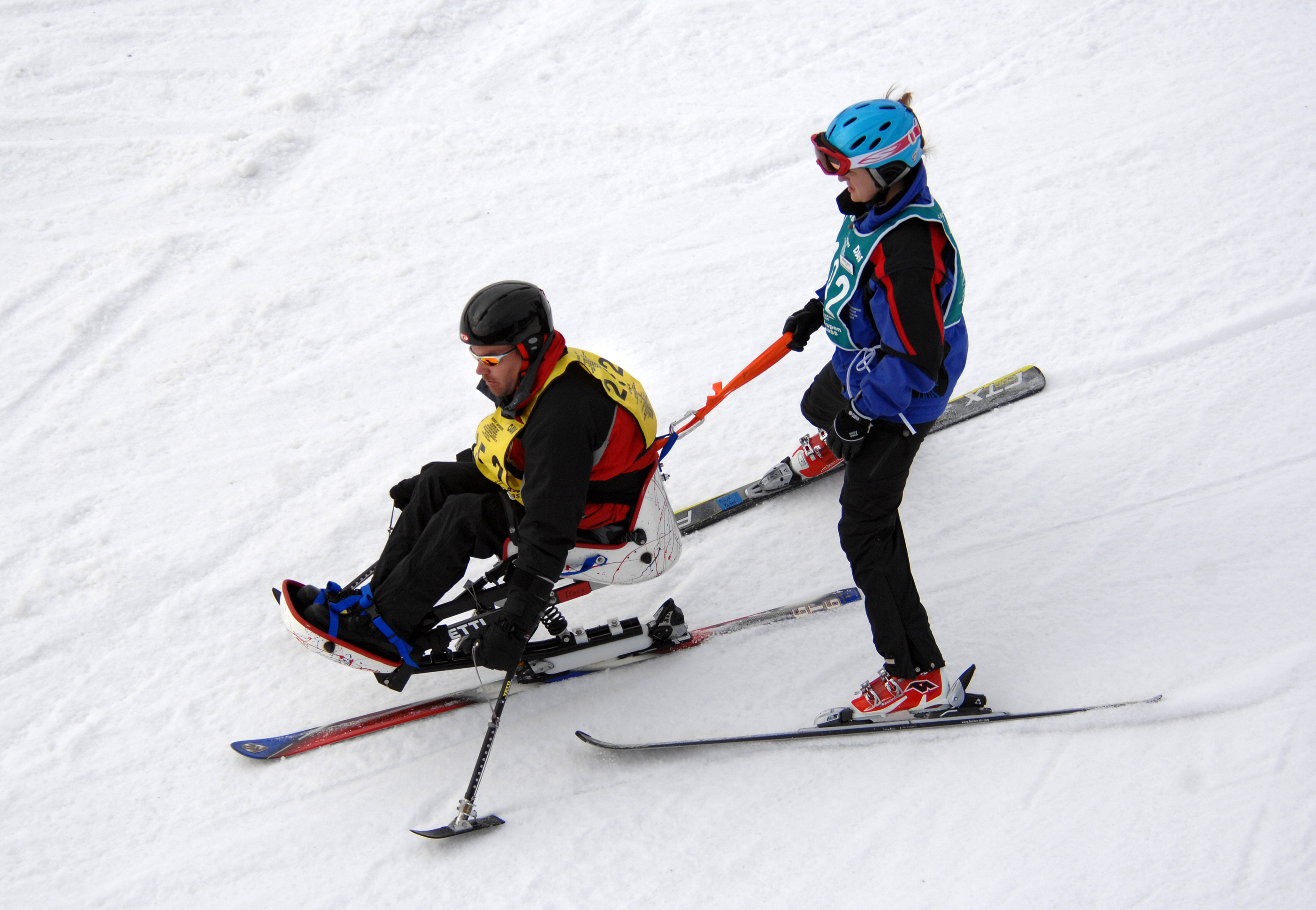 Disabled veteran skis with ski instructor during the National Disabled Veterans Winter Sports Clinic in Snowmass, Colo., April 3, 2007.